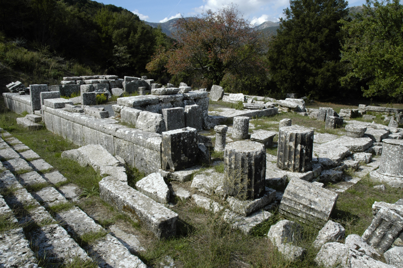 View WNW from the SE corner of the temple of Despoina. Two column drums rest on the stylobate in the foreground. At the back of the temple can be see the base for the cult statues, and on the left is the side door into the cella and the theater-like seating area.